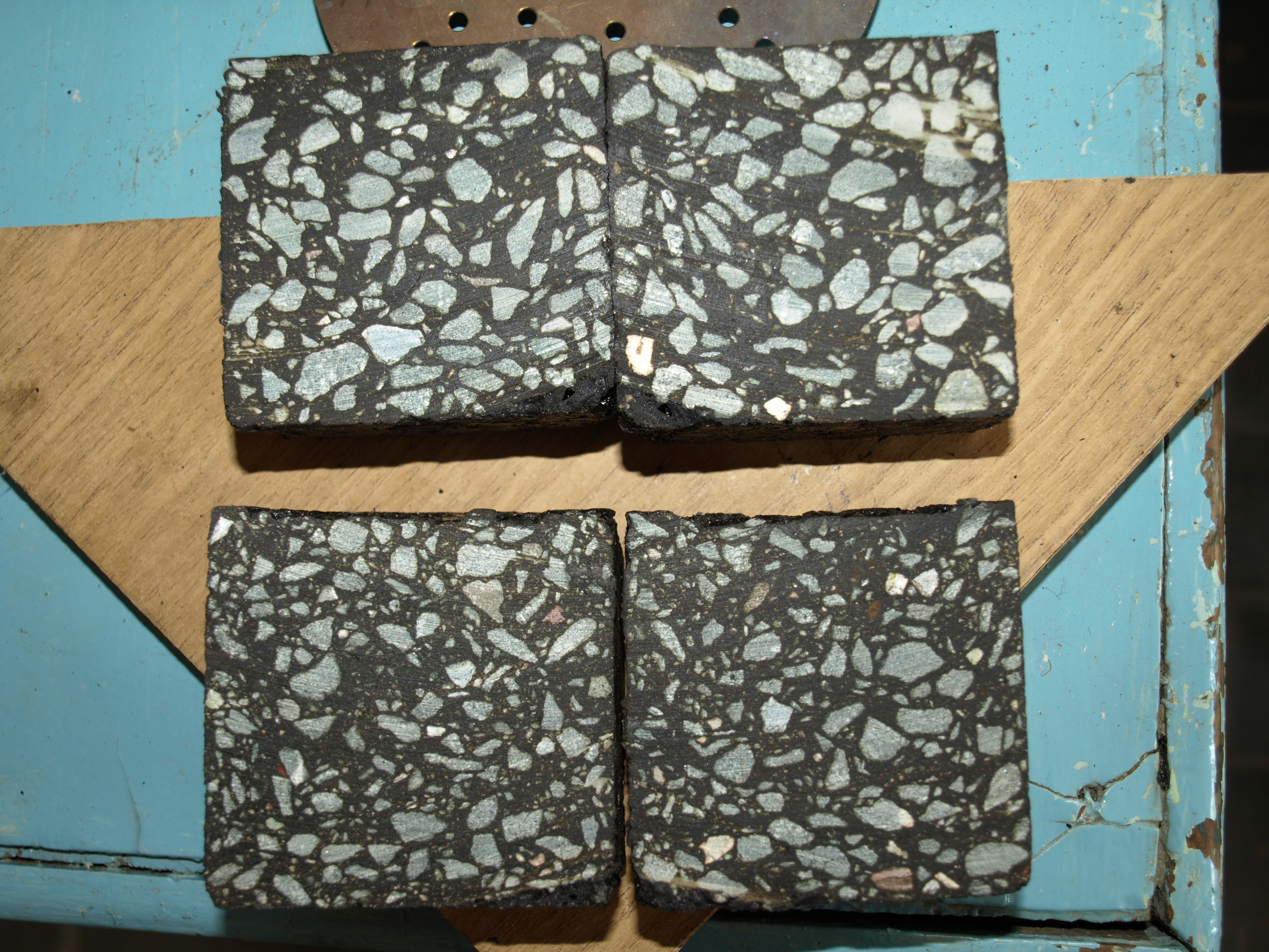 Cross-section of different types of polymer-based mastic asphalt concrete.